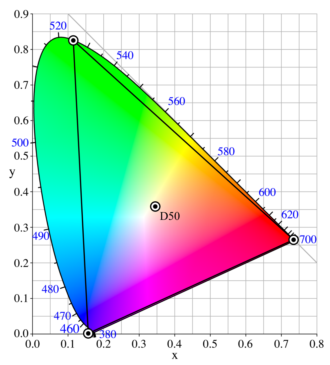 Created by me from :Image:CIExy1931.png